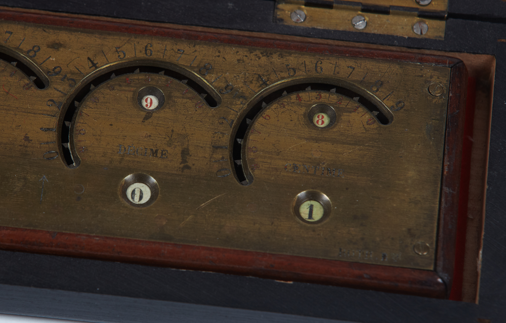 Detail of an early calculating machine invented by Didier Roth around 1840. This machine is a direct descendant of Pascal's Calculator.